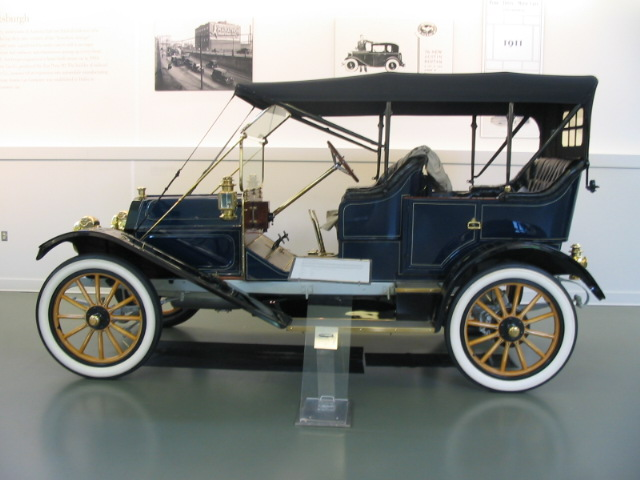 Image of a Penn (Pittsburgh) Thirty Model T; 5-pass. Touring (1911) on museum display taken by me in July of 2004. Relevant links (internal) See also: Penn